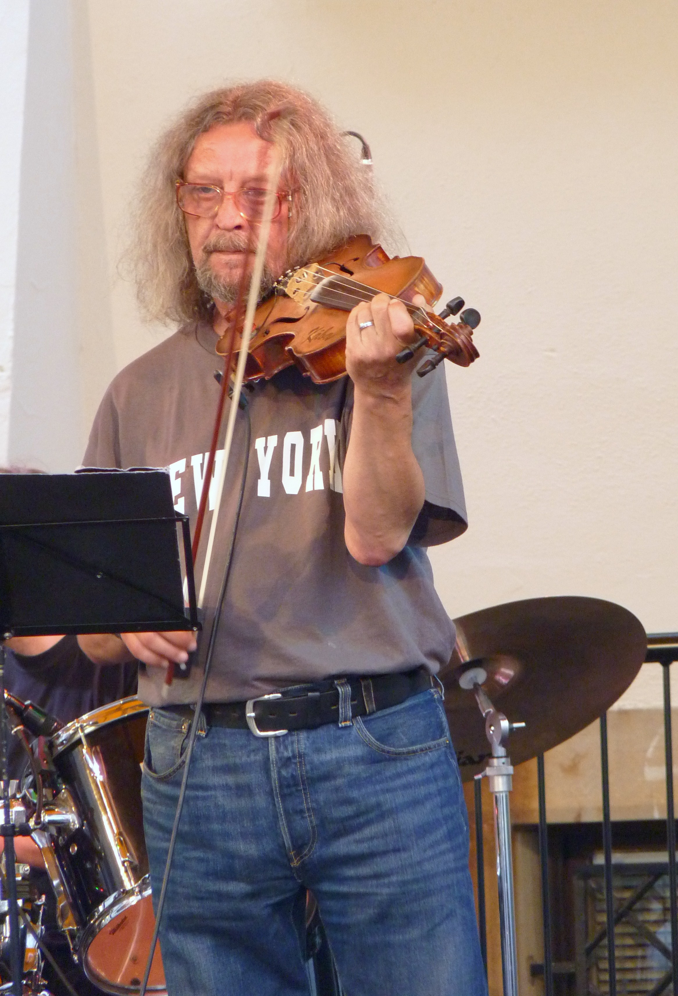 Jiří Kabeš (Czech musical group The Plastic People of the Universe. Old Town in Brno, 13th June 2010)